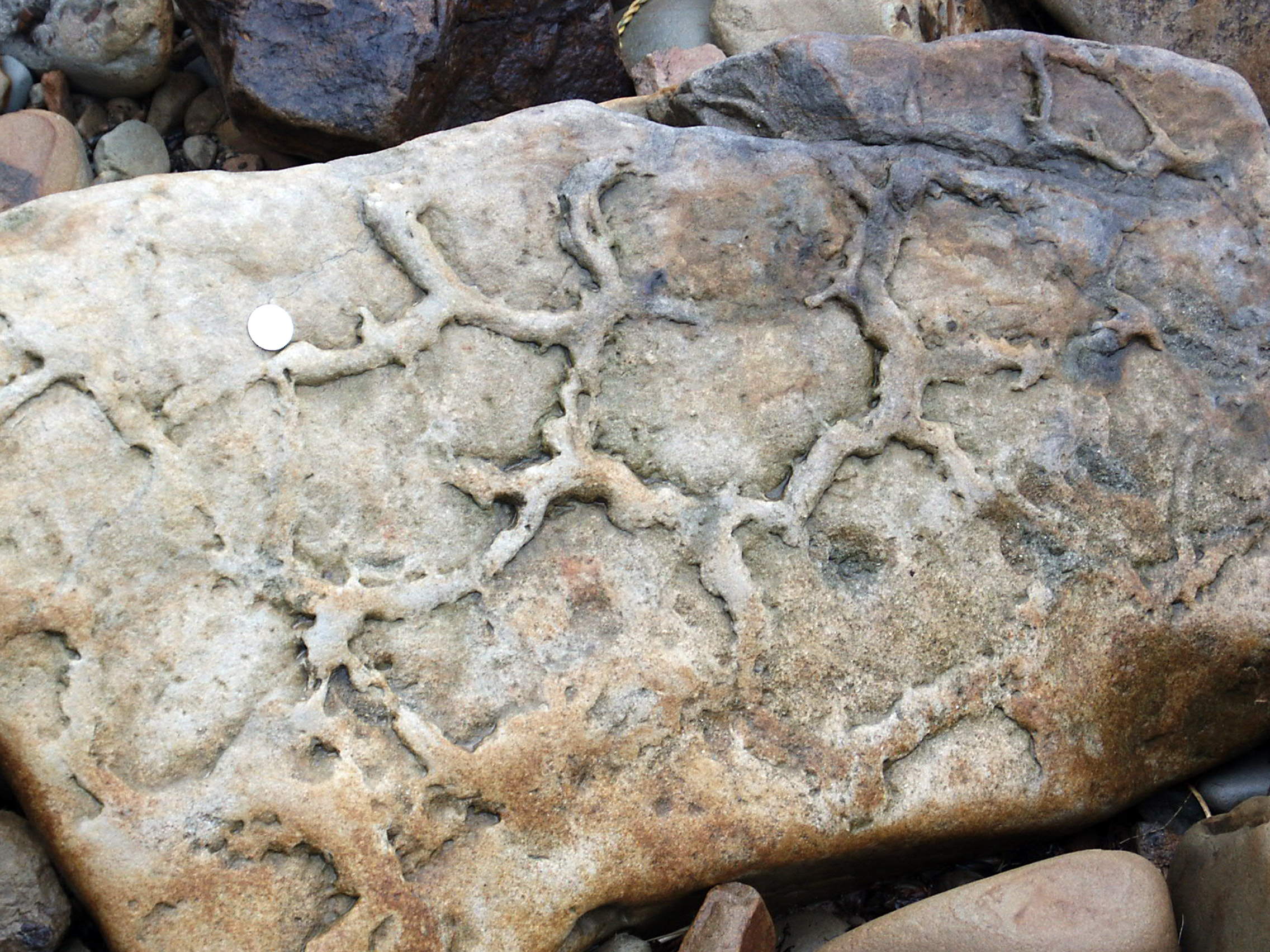 Dessication crack preserved as a cast on the base of a sandstone, Inverness Formation (Pennsylvanian), Cape Breton Island, Nova Scotia.